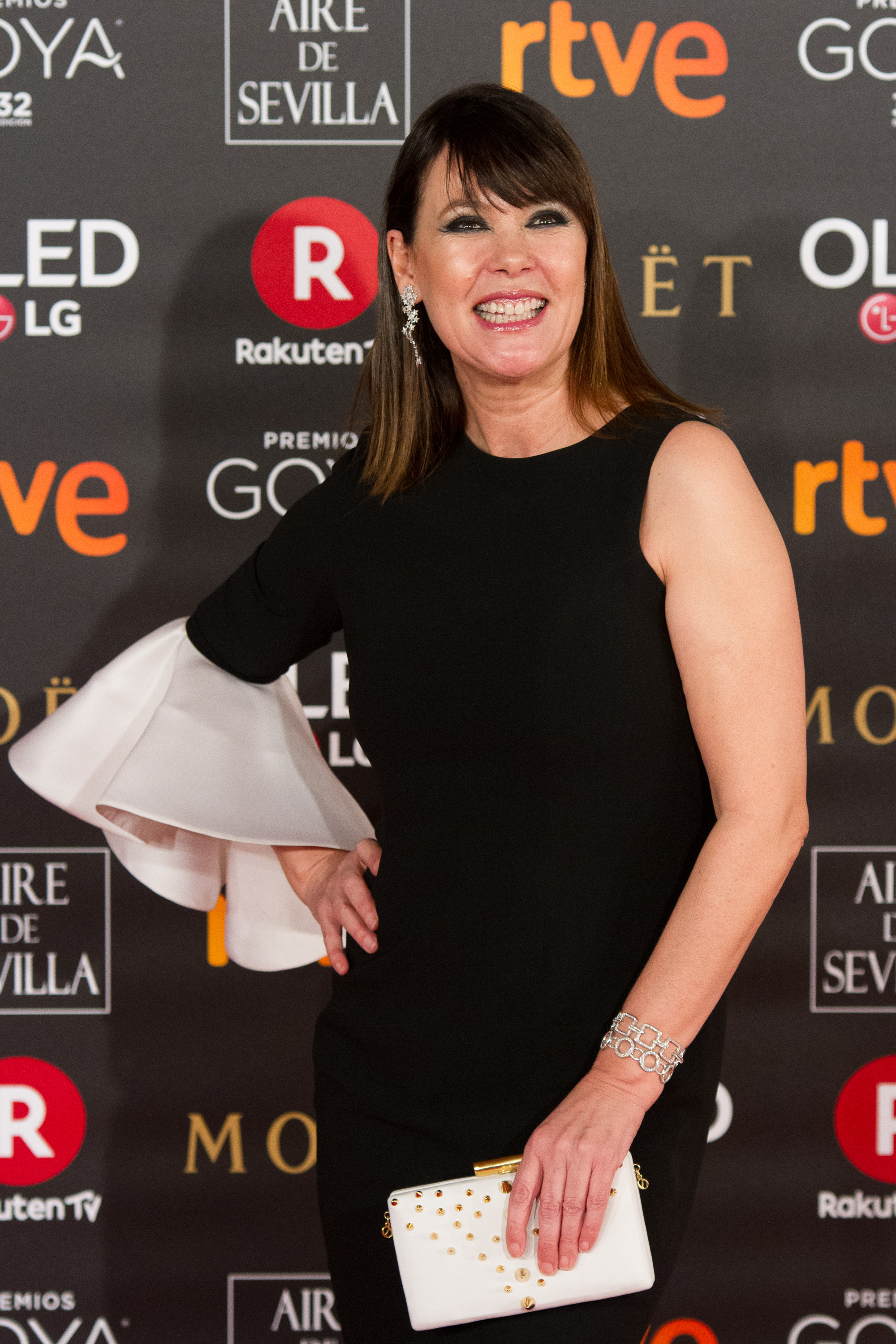 32nd Goya Awards, 2018.